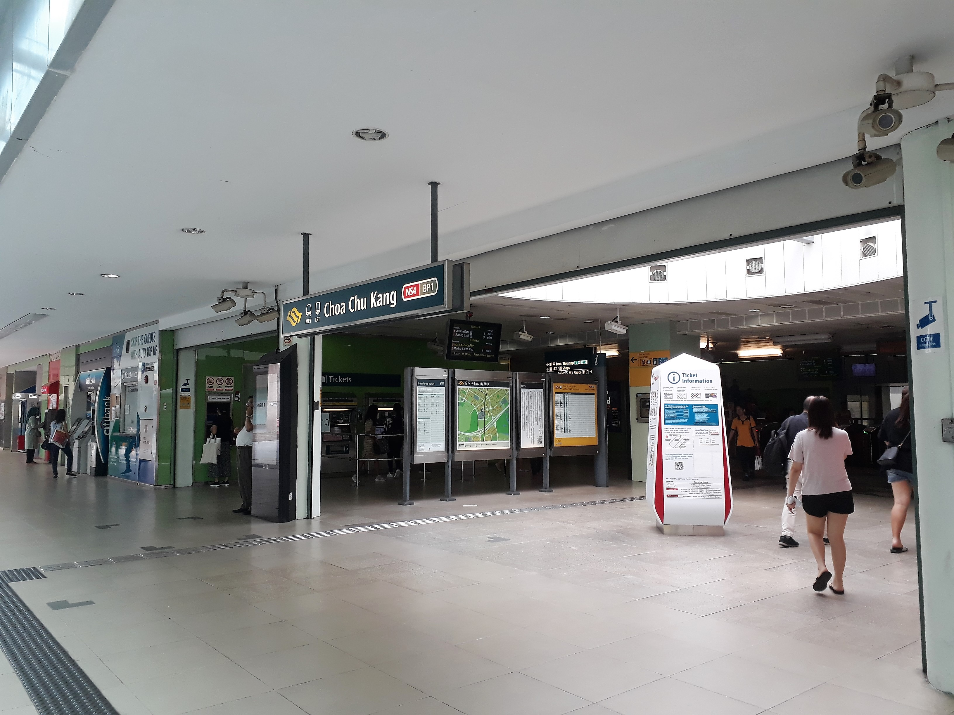 Exit A of Choa Chu Kang MRT/LRT Station